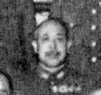 General Yukio Kasahara (1884-1973)